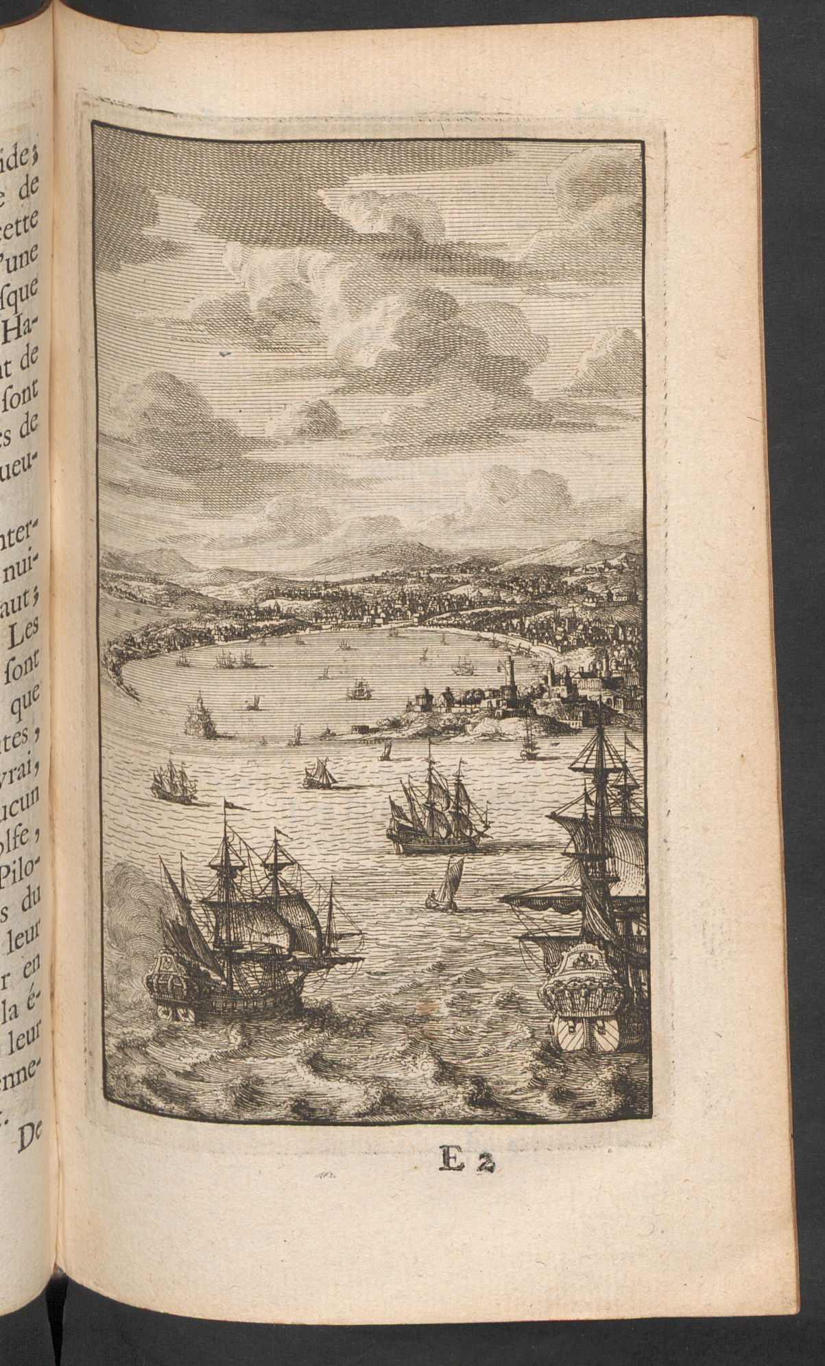 Engraving by François van Bleyswik for Th. More's Utopia translated in french by N. Gueudeville in 1715 (ETH-Bibliothek Zürich). This engraving (page 99) represents the entrance of the narrows of Utopia island. Supposedly, these ships represent commerce and trade between Utopia and other countries. We can also see the defences of the island and the tower that protects the entrance of Utopia inland sea.